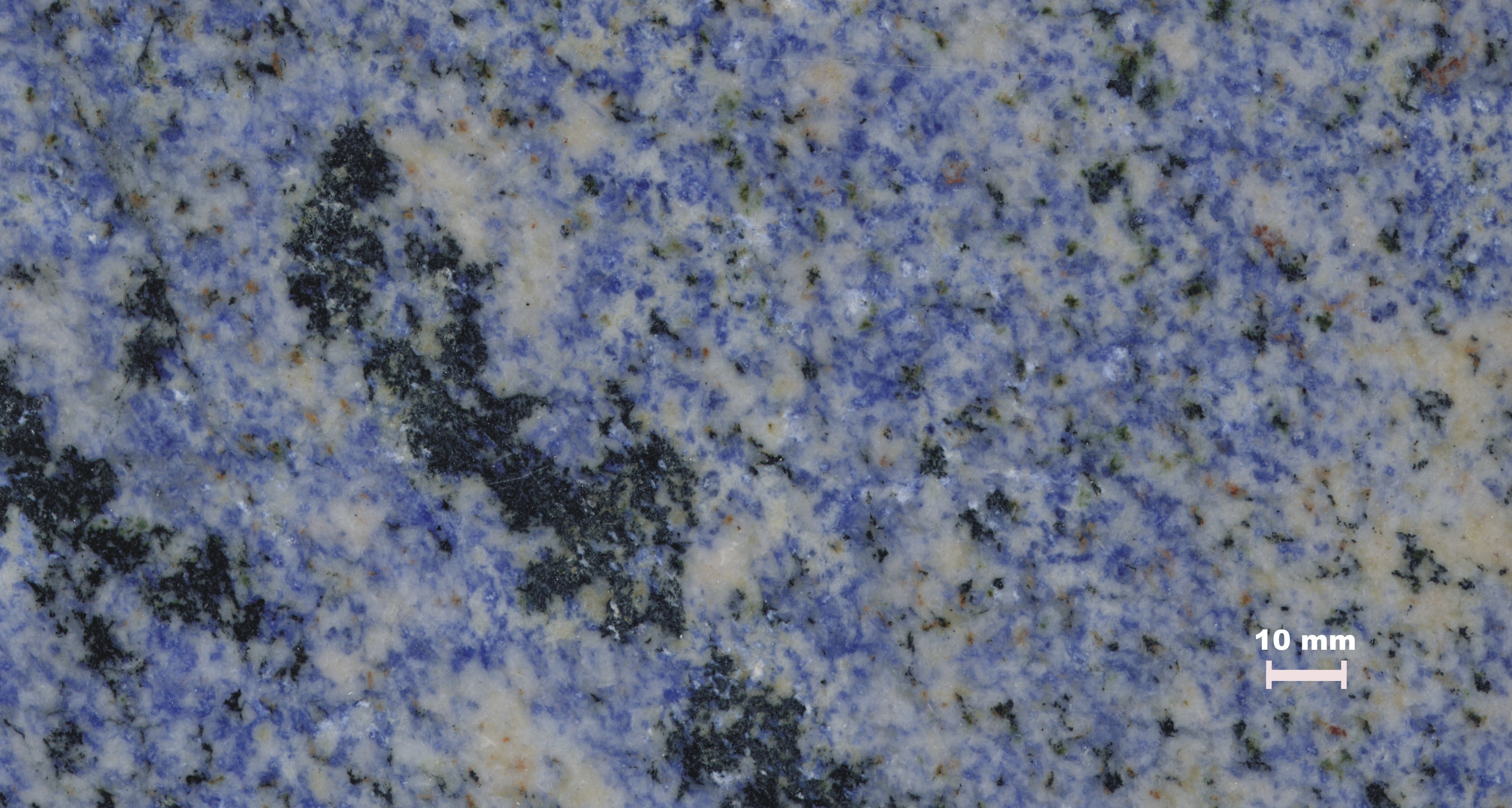 sample of Azul Bahia (Foid syenite), Brazil